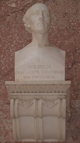 Bust of Friedrich Wilhelm Ernst Count of Lippe-Schaumburg-Bückeburg at Walhalla temple